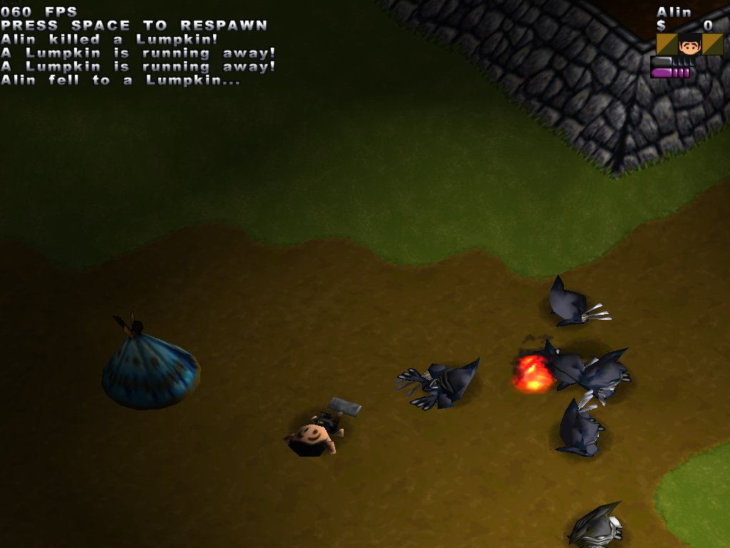 A screenshot from the open source computer game Egoboo.